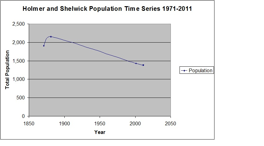 Total Population of Holmer and Shelwick Civil Parish, Herefordshire, as reported by the Census of Population from 1871 to 2011